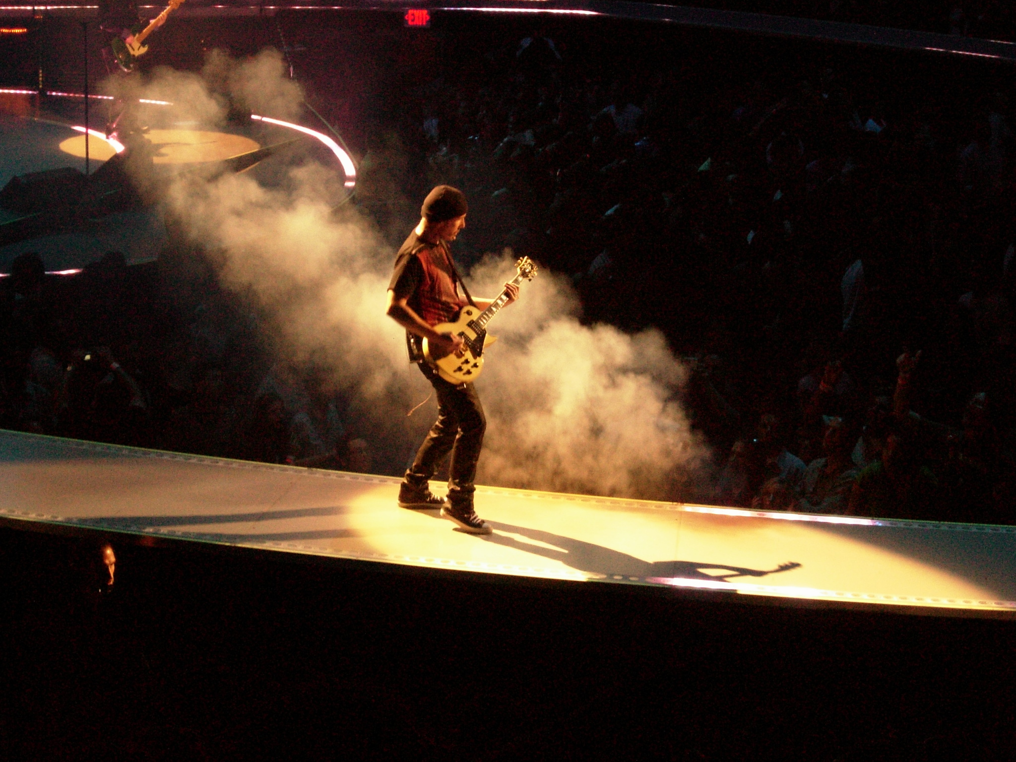 The Edge from U2 on 1. April 2005 in Anaheim.